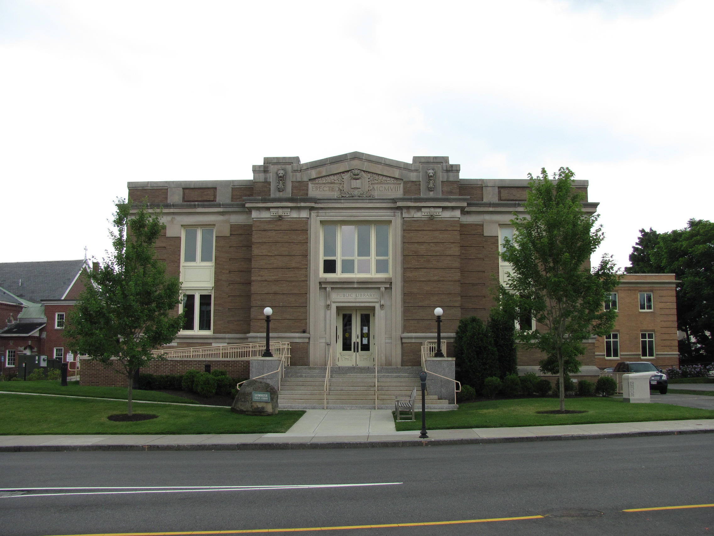 Leominster Public Library, Leominster Massachusetts, June 2010